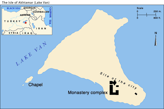 The shape of the Turkish isle of Akdamar in the Lake of Van with the Monastery of the Holy Cross